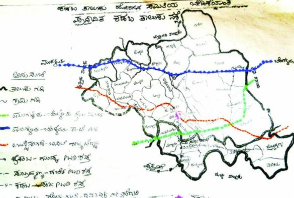 ಕಡಬ ತಾಲೂಕಿನ ನಕ್ಷೆ